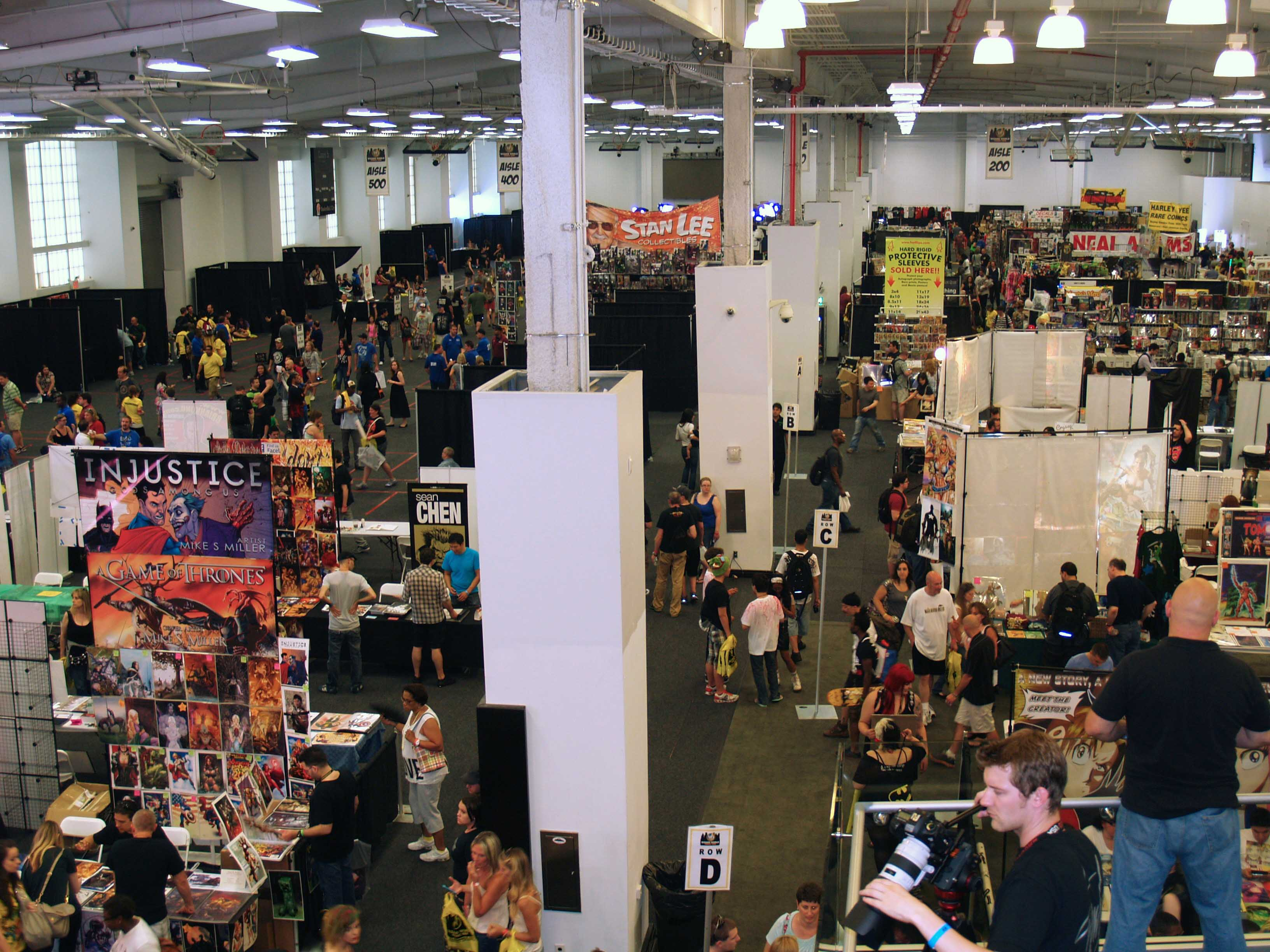 The 2013 Wizard World New York Experience Comic Con, at Pier 36 in Manhattan, June 29, 2013. This photo was created by Luigi Novi. It is not in the public domain, and use of this file outside of the licensing terms is a copyright violation.